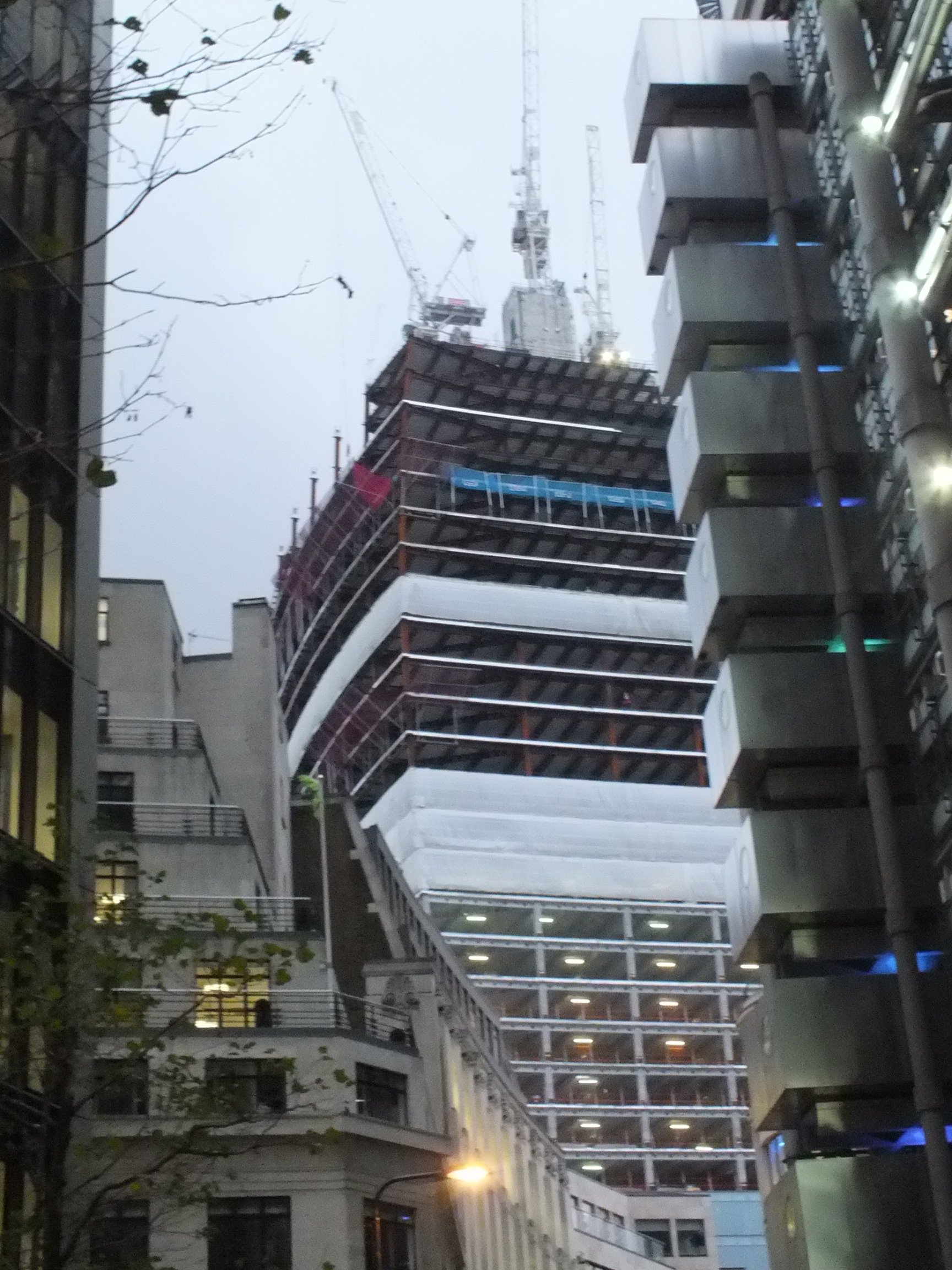 20 Fenchurch Street construction in 2012 (conflicting dates)